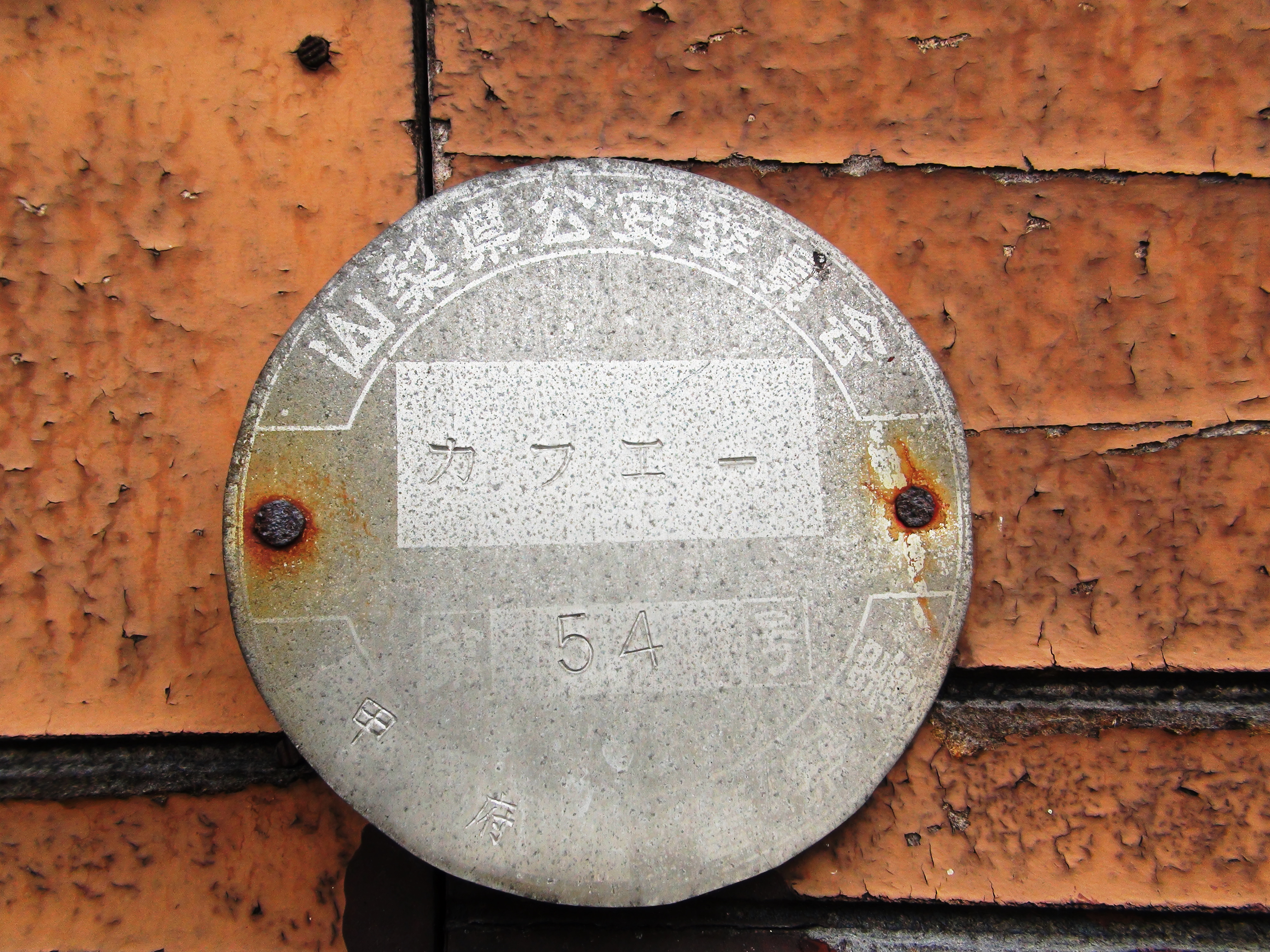 Public Safety Commission operating license plates Yamanashi